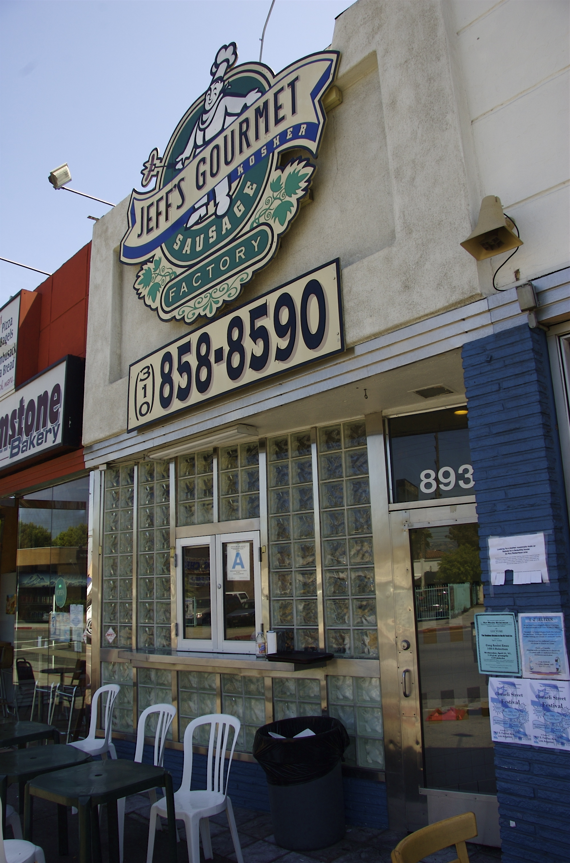 I love the food here, peperoni stick and all. Deliciously kosher chili fries, too.